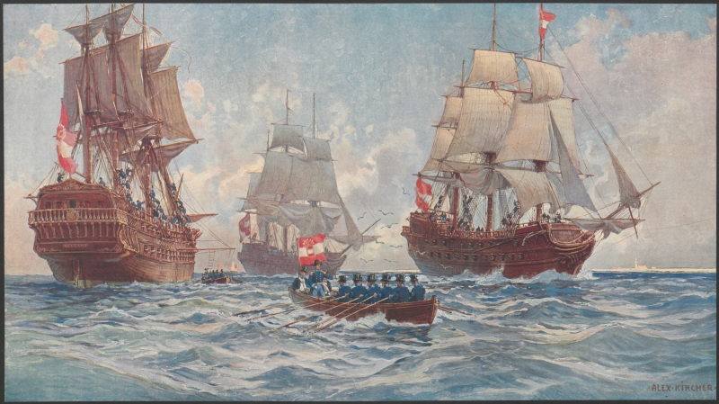 Panel No. 2 from the series 'Our War Fleet 1556-1908' (Ljubljana, 1908), edited by Alfred von Koudelka after paintings by marine painter Alexander Kircher. The painting depicts three ships of the line in 1800. With the incorporation of the Republic of Venice into the Habsburg Empire in 1797-1798, these former Venetian ships are now flying Austrian flags.